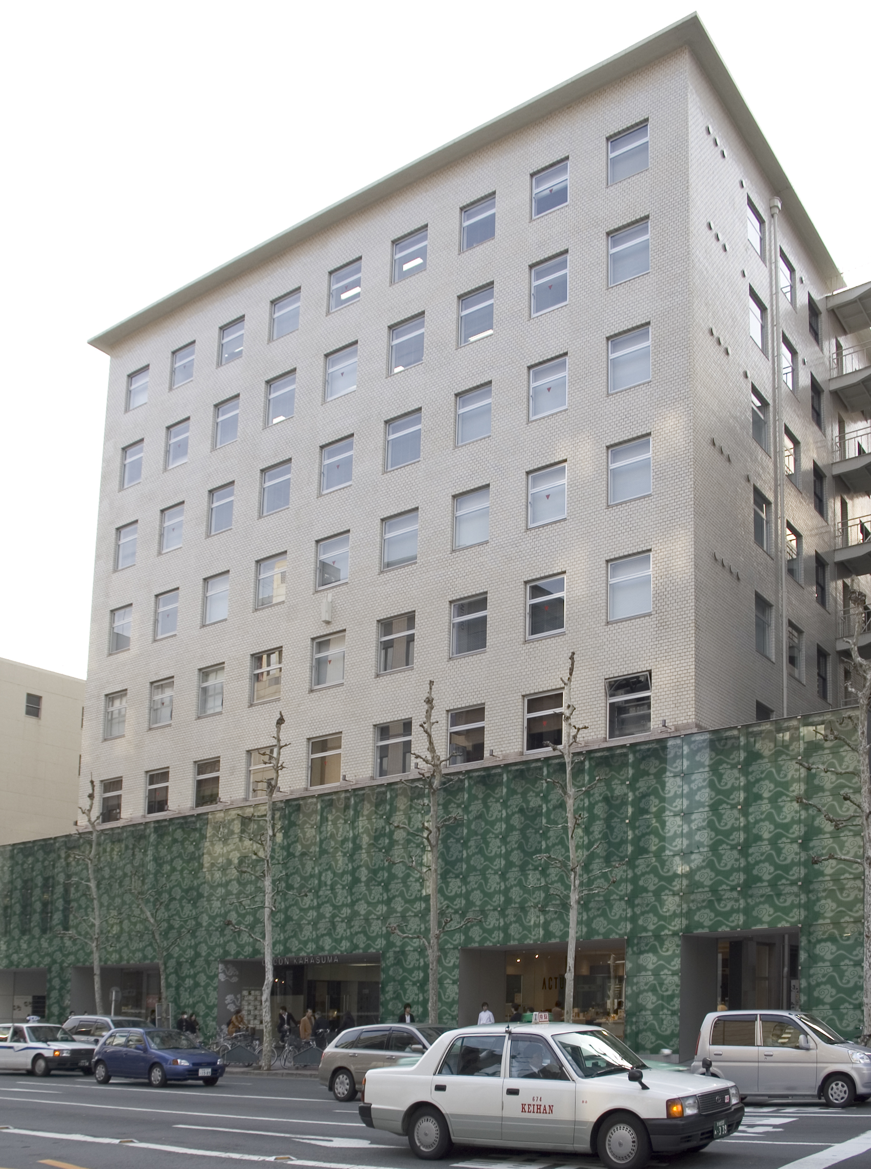 Cocon Karasuma in Shimogyo-ku, Kyoto City, Kyoto Prefecture, Japan